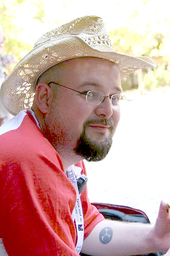 Picture of James Turnbull at 2008